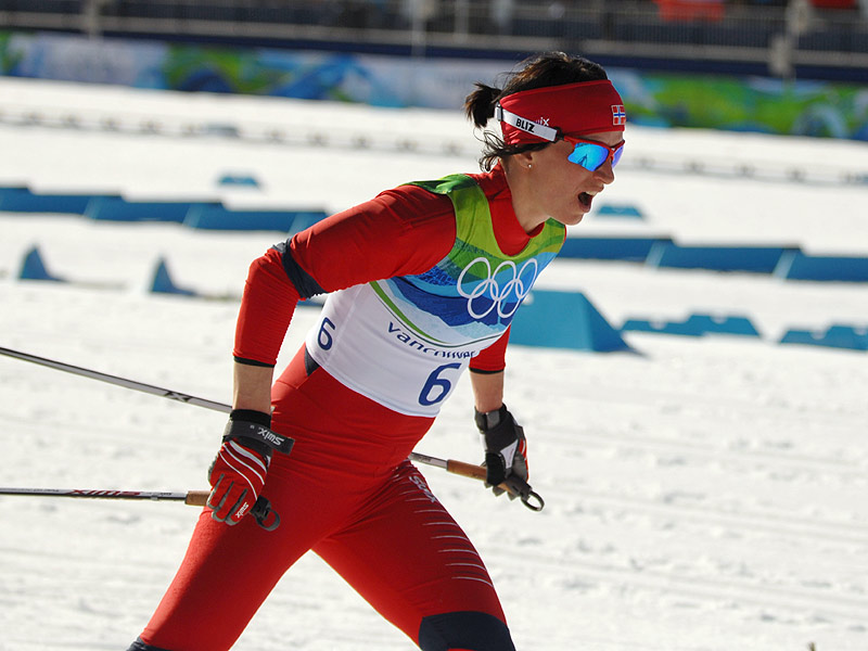 Marit Bjørgen on her way to Olympic gold on the 15 km pursuit in Vancouver 2010.